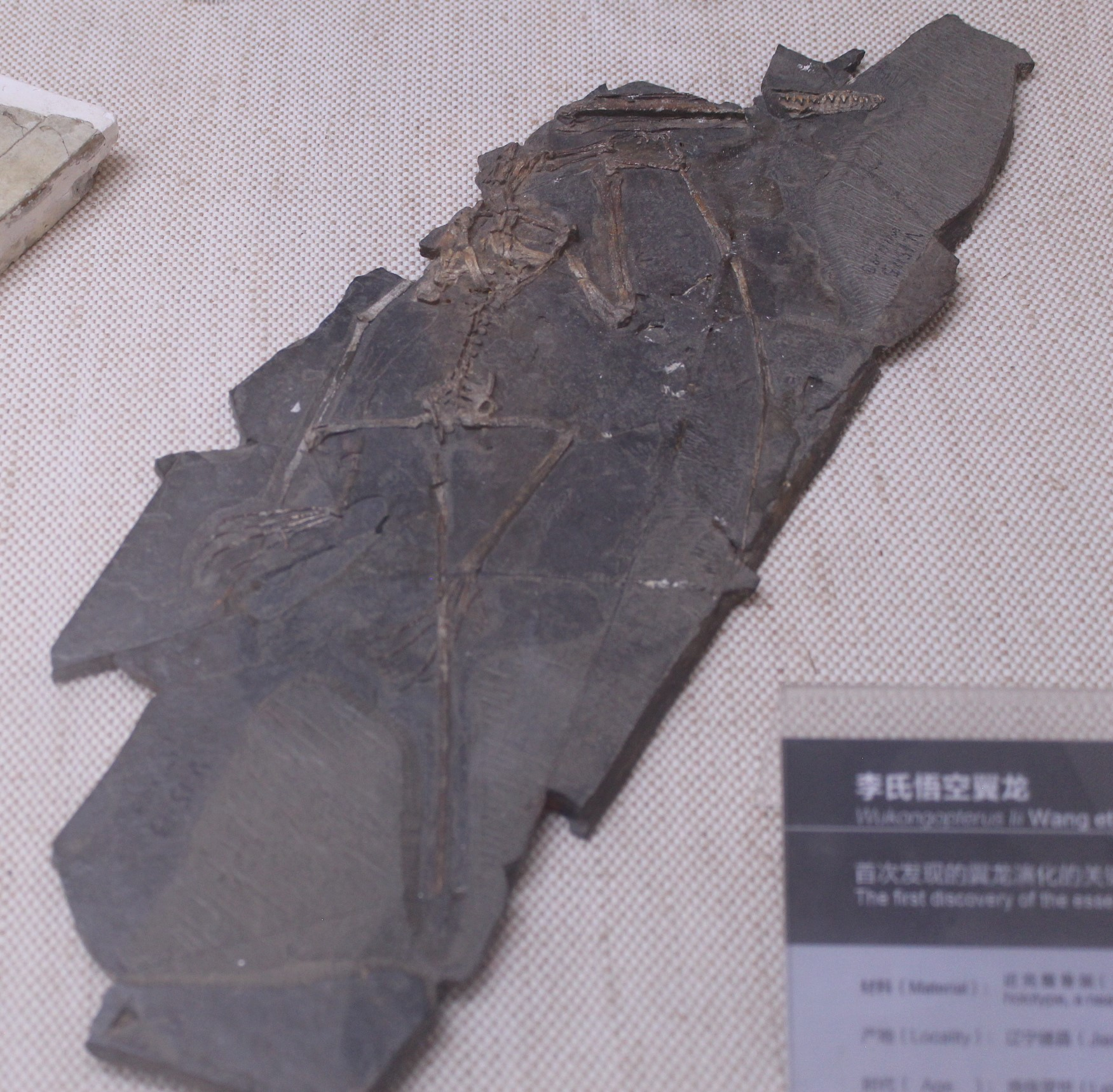 Holotype skeleton of Wukongopterus lii on display at the Paleozoological Museum of China.